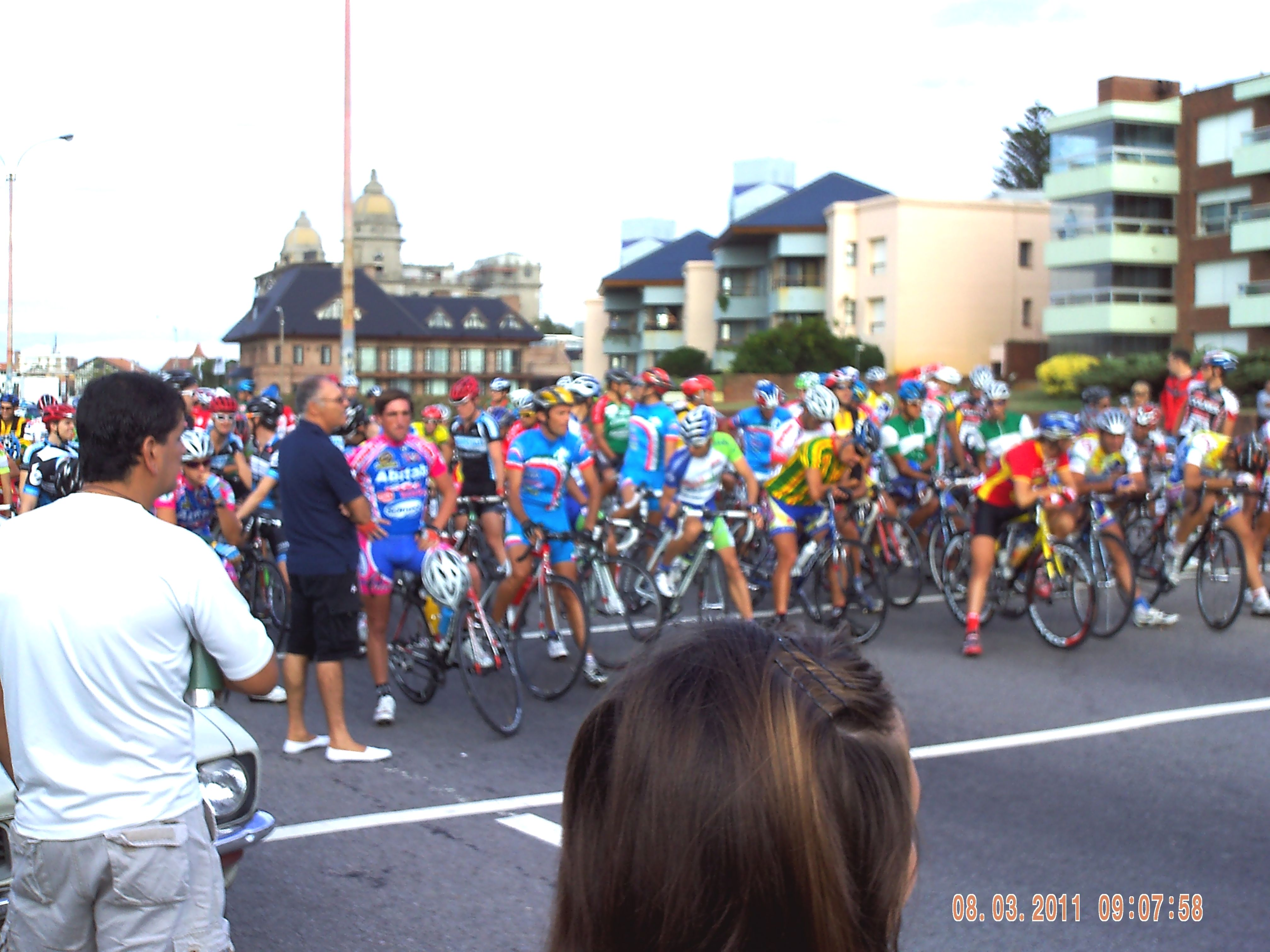 Rutas de América 2011, cyclists ready to start the race